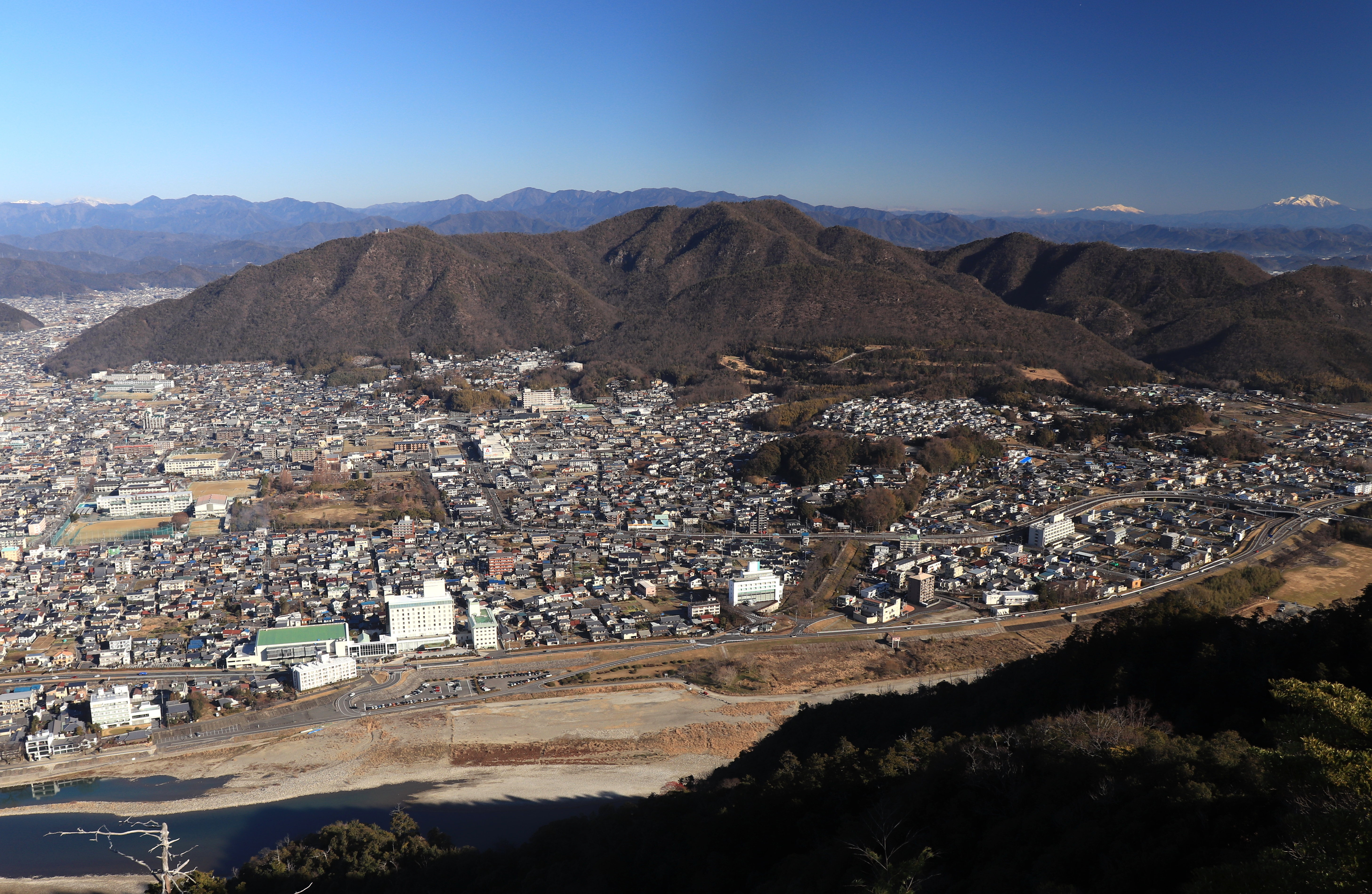 Mount Dodo seen from Gifu Castle on Mount Kinka in Gifu City, Gifu Prefecture, Japan. Canon EOS Kiss X9